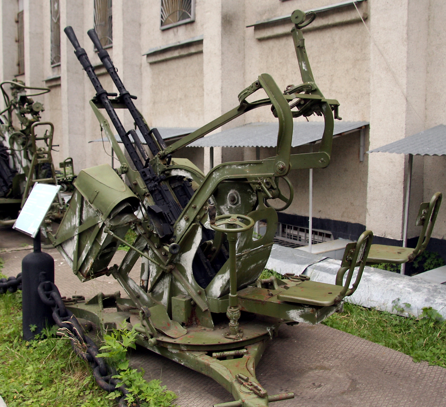 Air Defense History Museum in Zarya in Moscow Oblast.